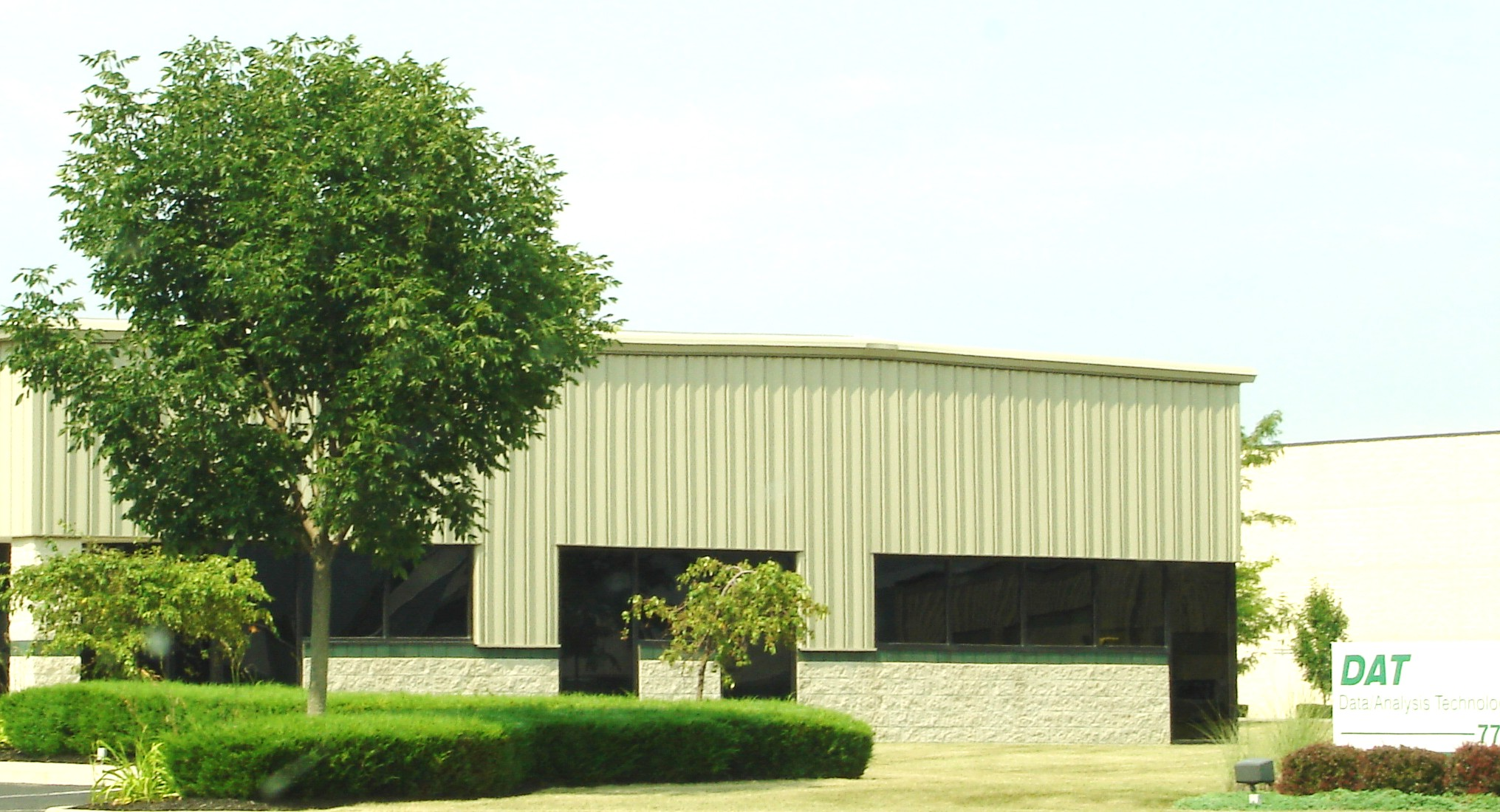 Data/Analysis Technologies in Jerome Township